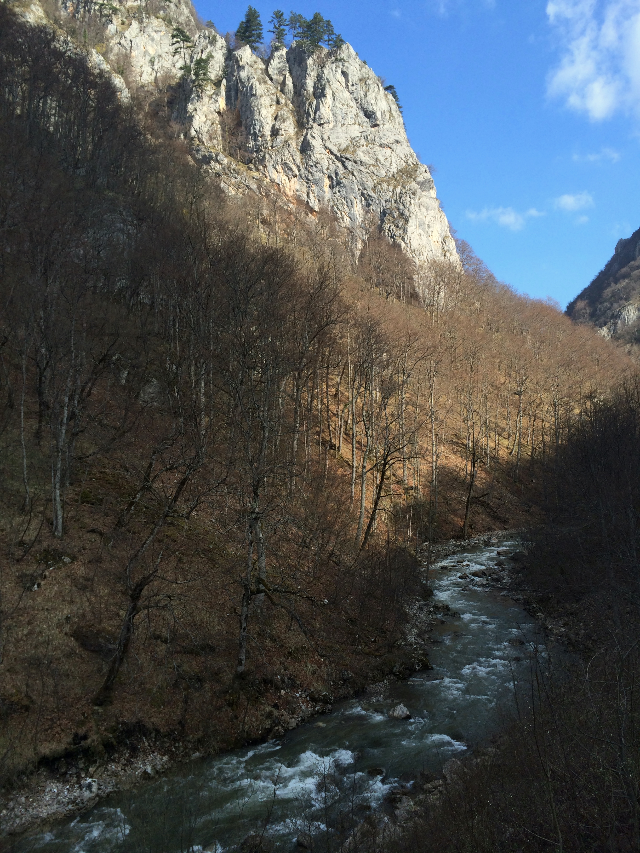 Image from the village township of Izbišno, in the northern parts of the municipality of Foča - osnia & Hercegovina.